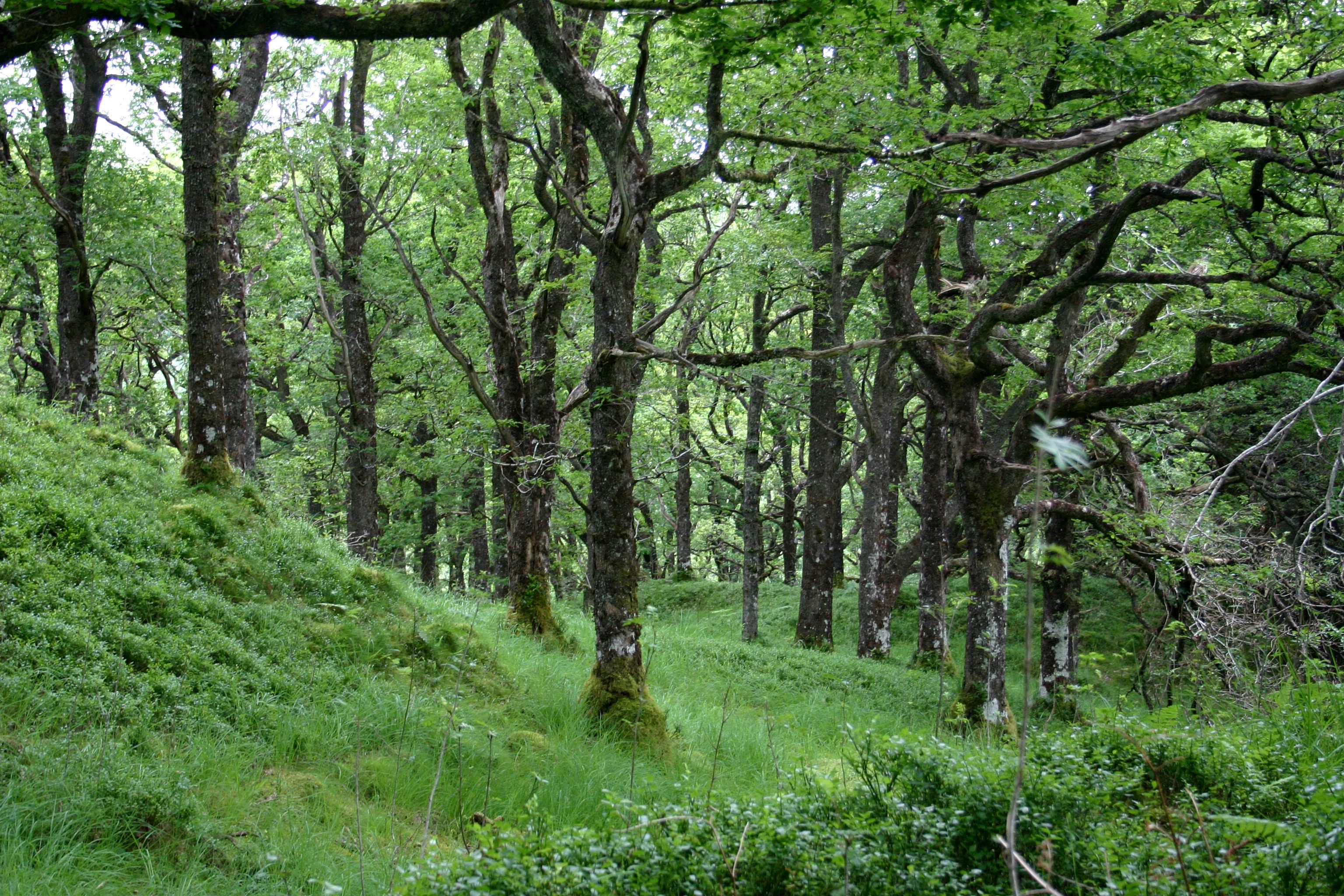 Quercus petraea forest, Scotland.